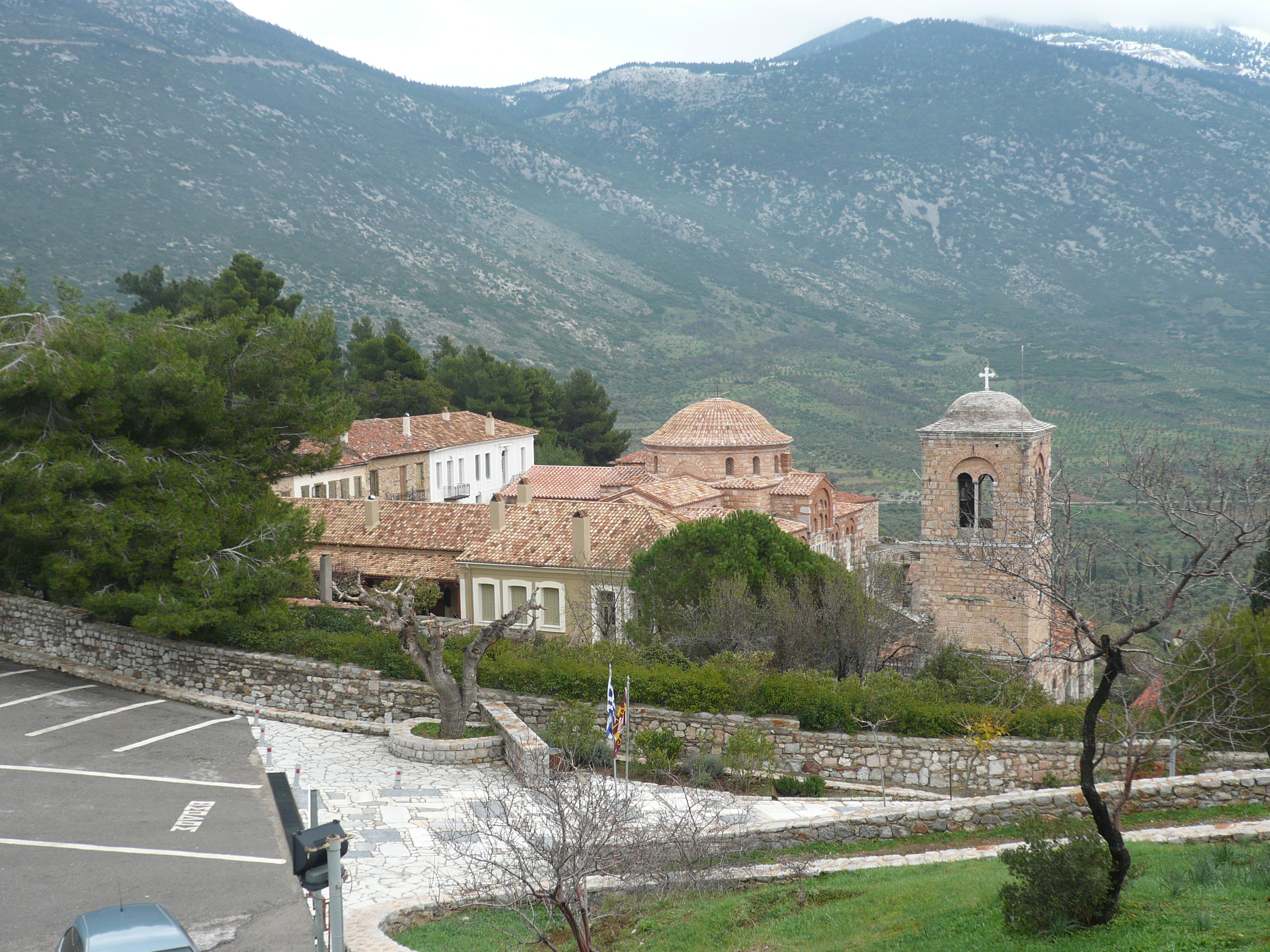 Osios Loukas